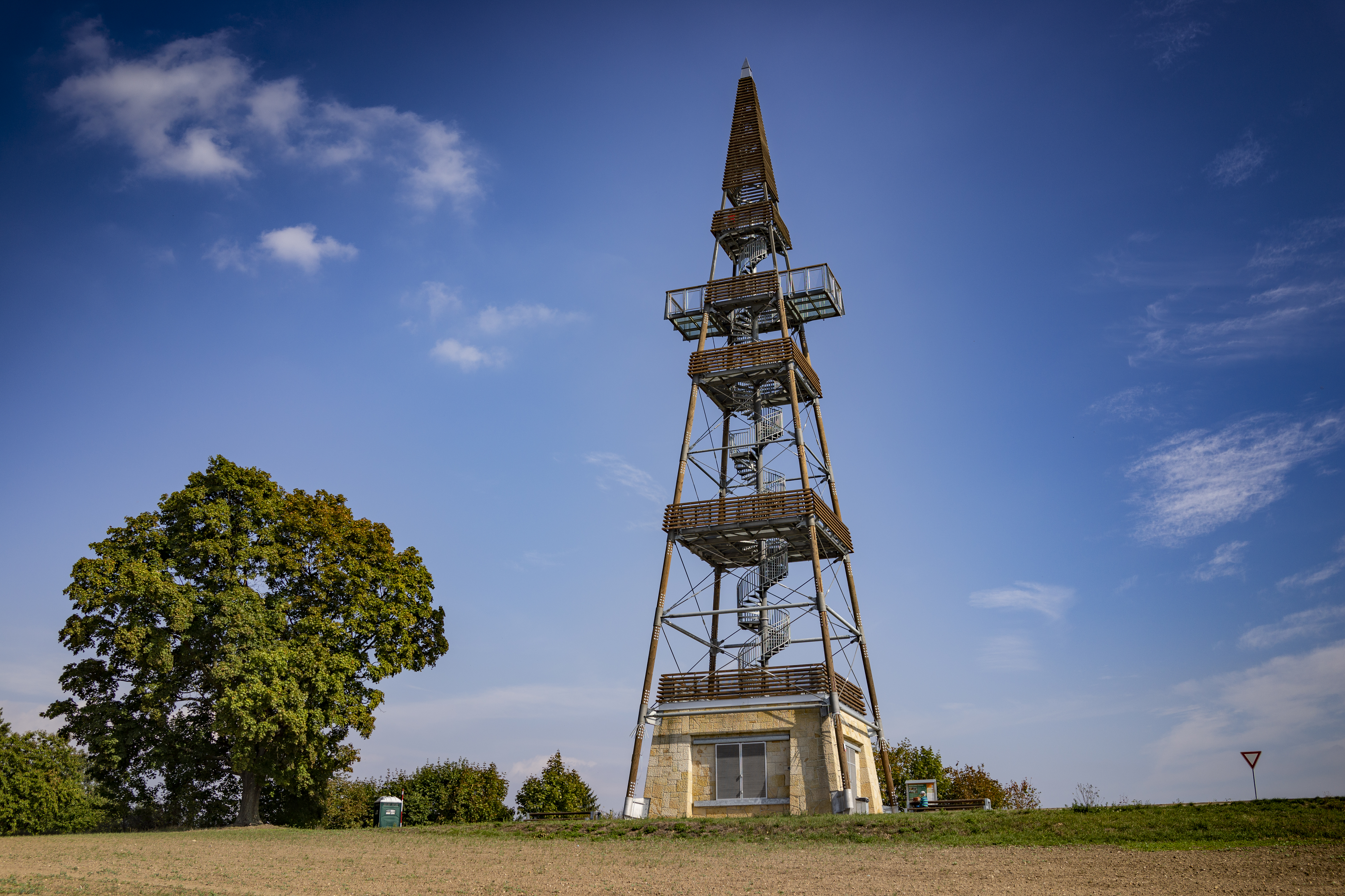 Cizovka observation tower near Cizovka, Czech Republic, Central Bohemia region